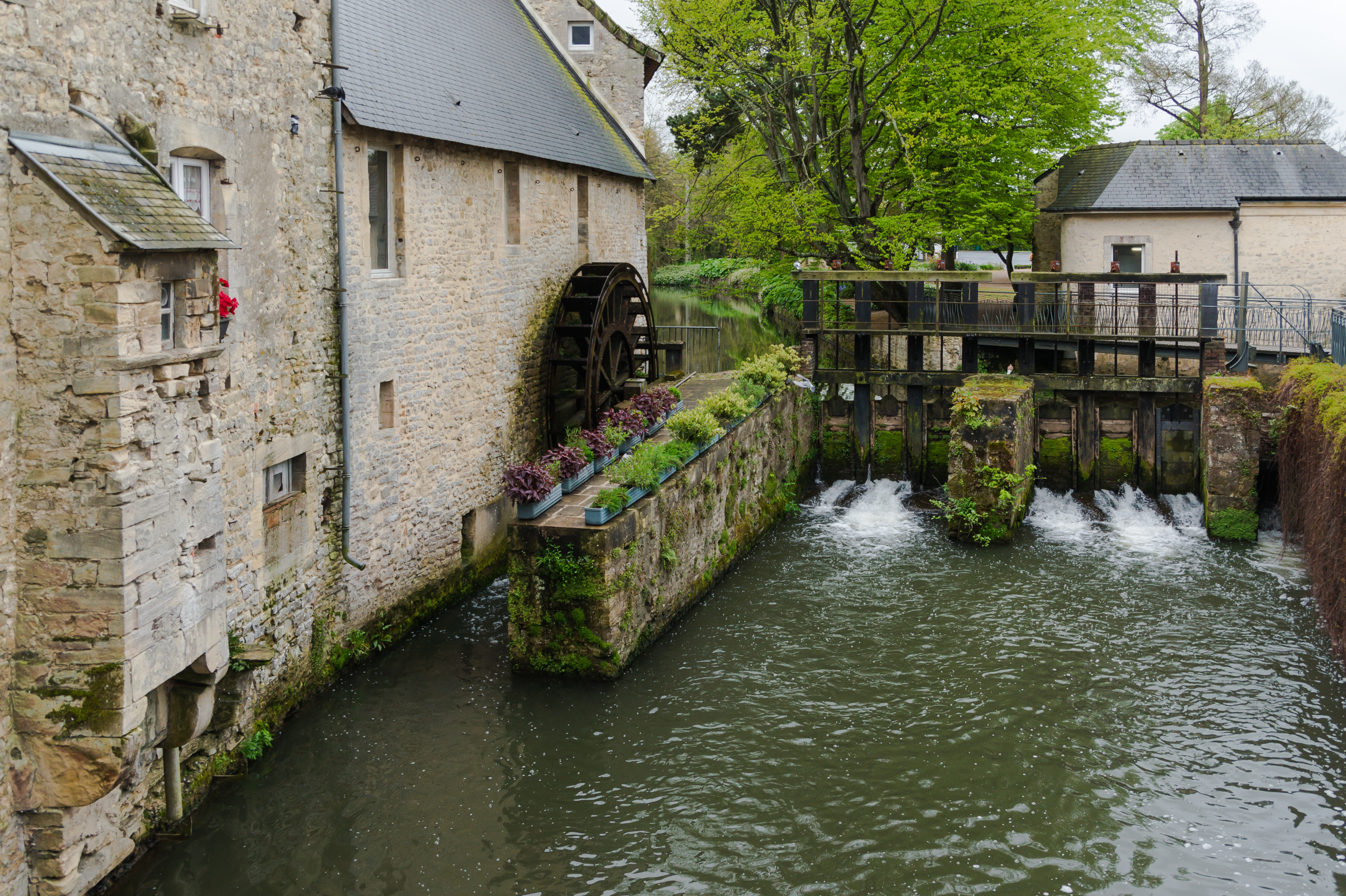 A watermill on the Aure river in Bayeux, Calvados, Normandy, France